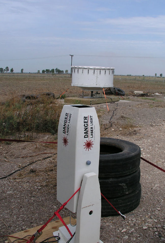 Ceilometer with the 2875-MHz profiler radar in the background (